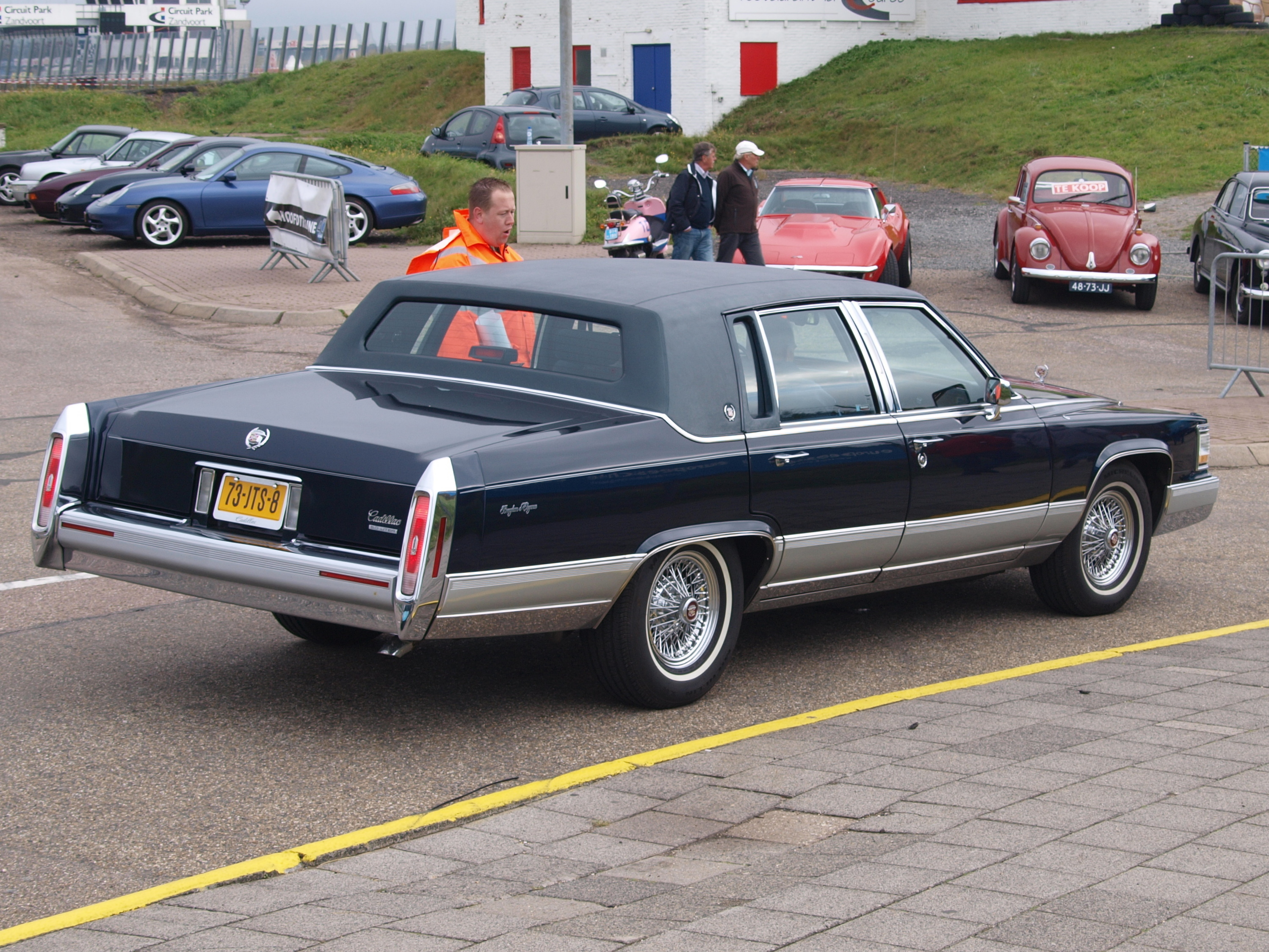 Photographed at the Nationaal Oldtimer Festival Zandvoort 2010, The Netherlands.